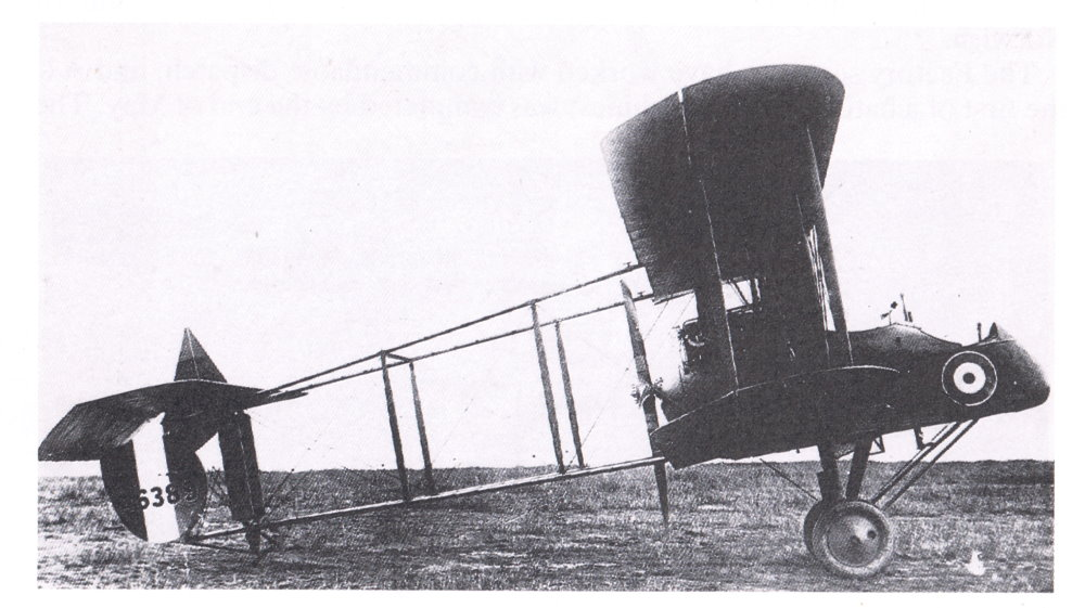 Roll-Royce engined F.E.2d - nosewheel has been removed, while leaving shock absorbers in place